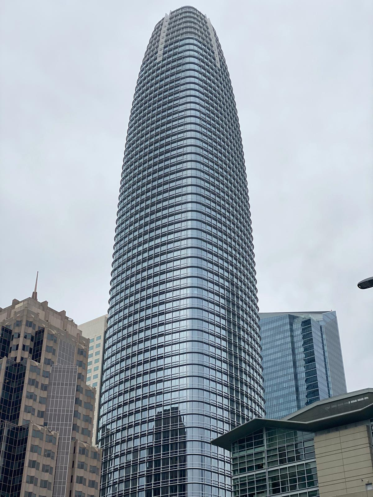 The skyscrapers is seen from a more distant street.